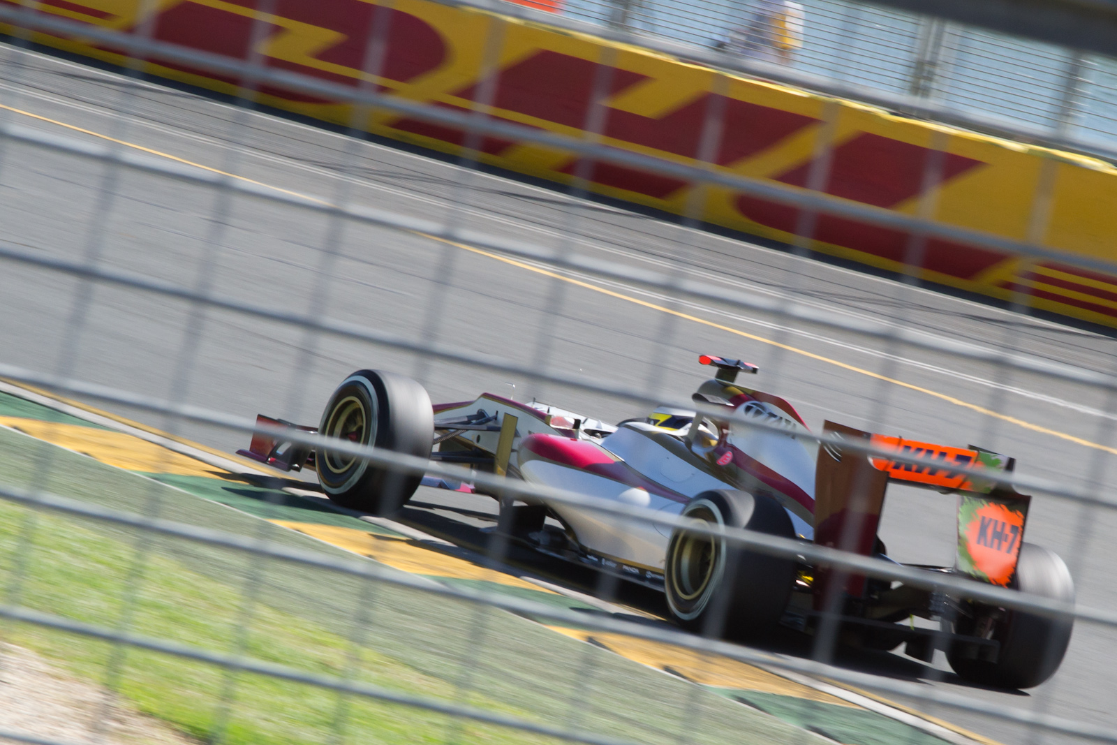 Pedro e la Rosa driving during Friday practice for the 2012 Australian Grand Prix